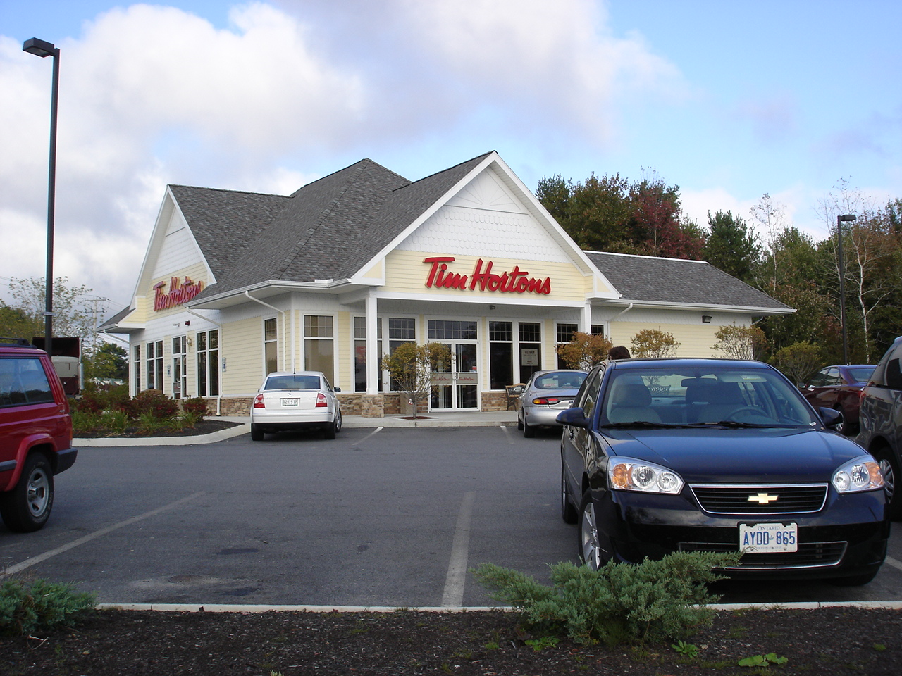 Tim Hortons is a fast food chain of restaurants in Canada and some US locations. Founded by Tim Horton in 1964 in Hamilton Ontario. Tim was a famous hockey player who died in a car crash in 1974. The chain expanded its product range dramatically in the late 20th century and now is a highly recognisable, iconic, product name that has reached cult status. The stock is listed on the Toronto Exchange under symbol THX.